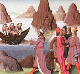 Medieval illustration of the ancient Roman Sergius Orata demonstrating oyster cultivation